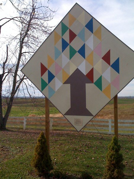 Quilt donation outside of the Kirksville Christian Church